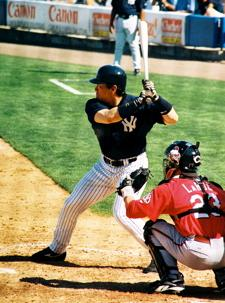 Hideki Matsui of the New York Yankees at the plate in a Spring training game against the Cincinnati Reds. Cropped by User:Quadzilla99